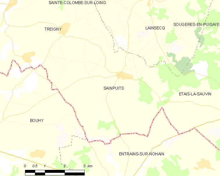 Map of French municipality Sainpuits